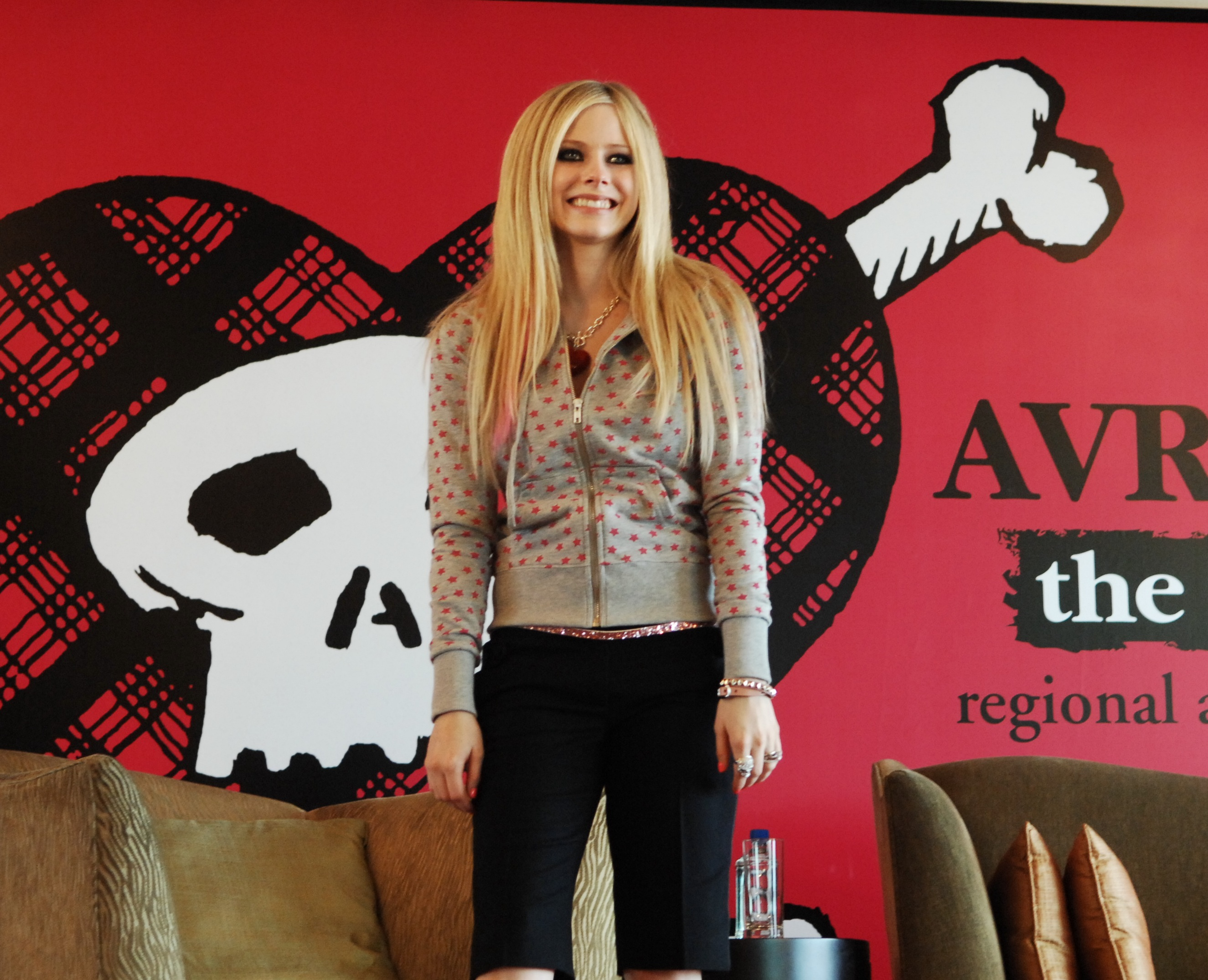 Avril Lavigne In Hong Kong 2007 Press Conf.